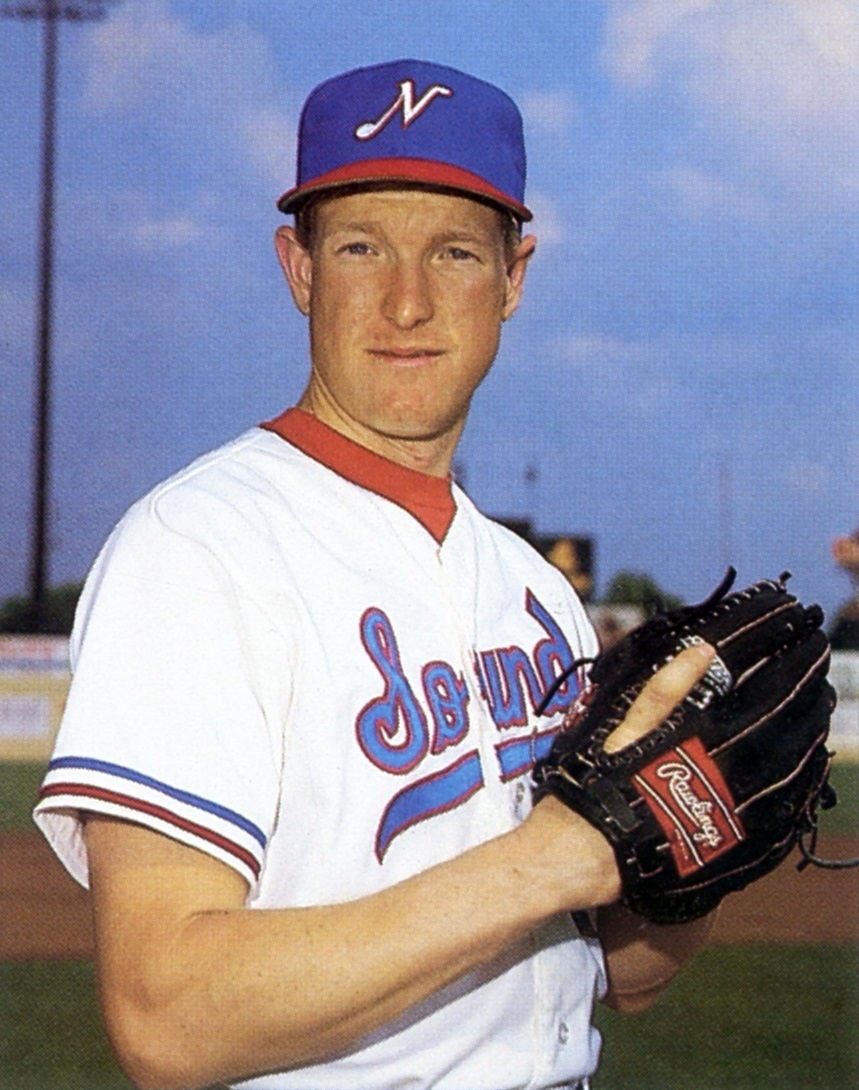 Pitcher Norm Charlton of the 1987 Nashville Sounds Minor League Baseball team of the American Association